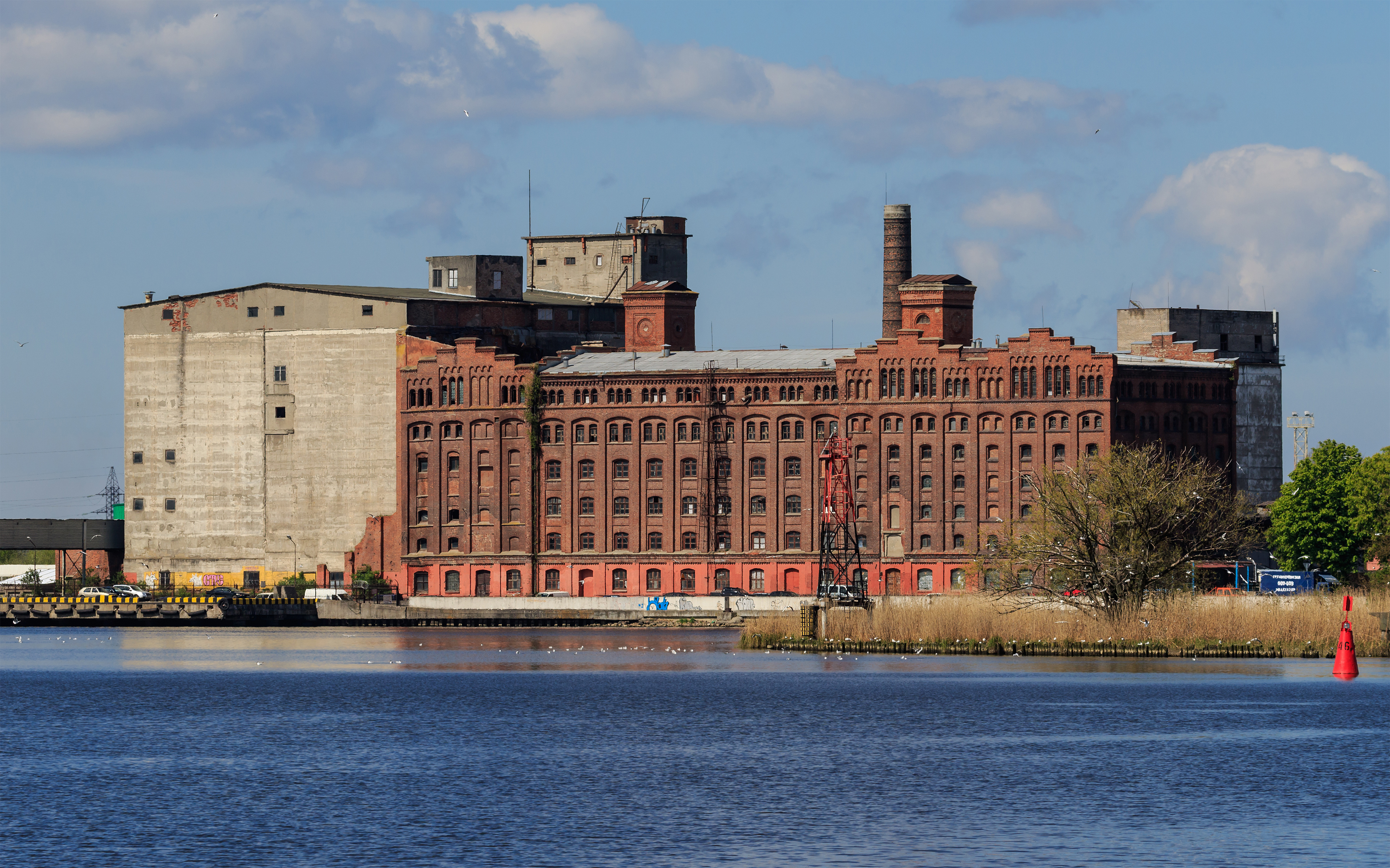 Historical port mill in Kaliningrad formerly Königsberg, Kaliningrad Oblast (Russia).